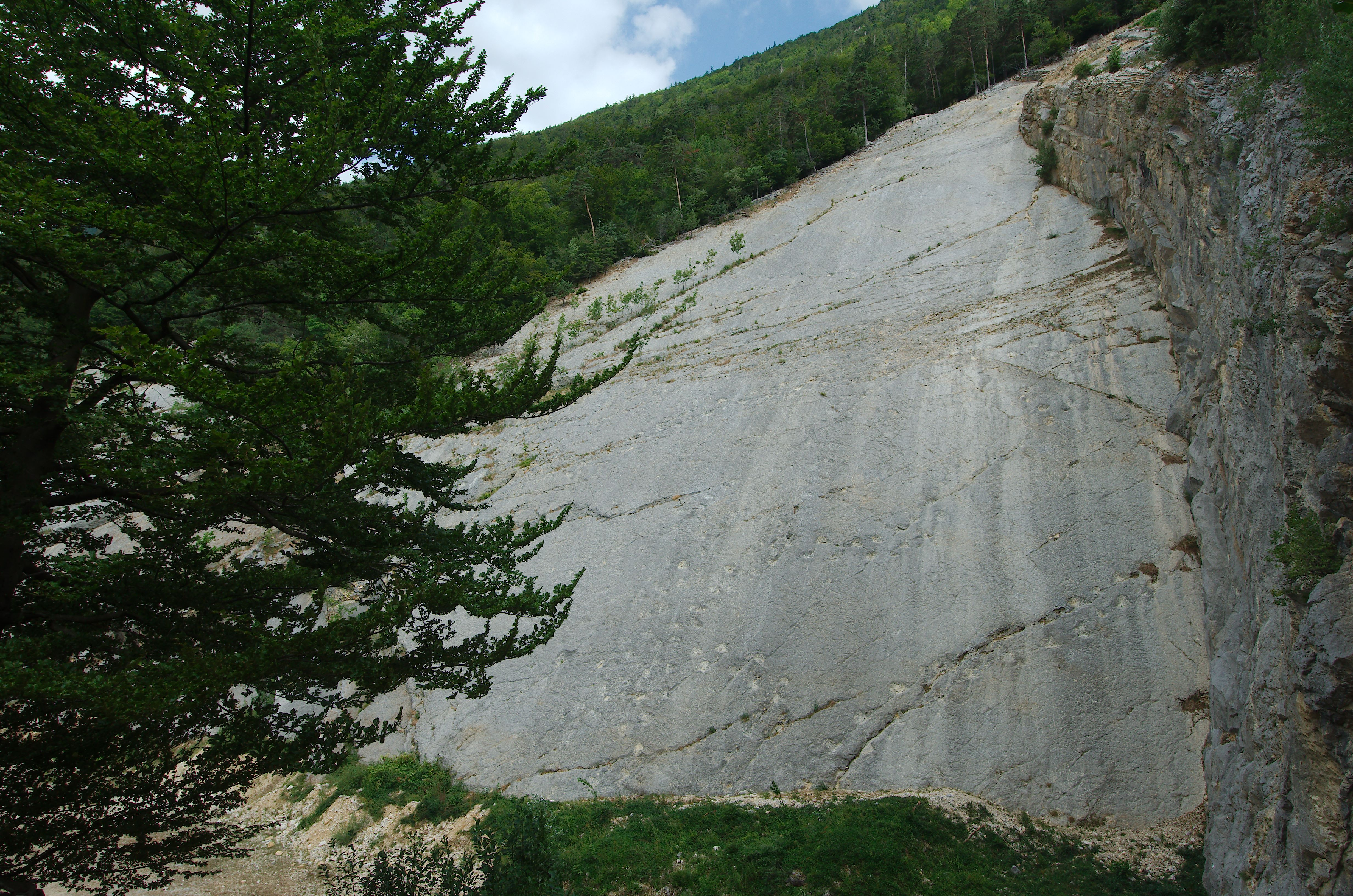 2015, Switzerland